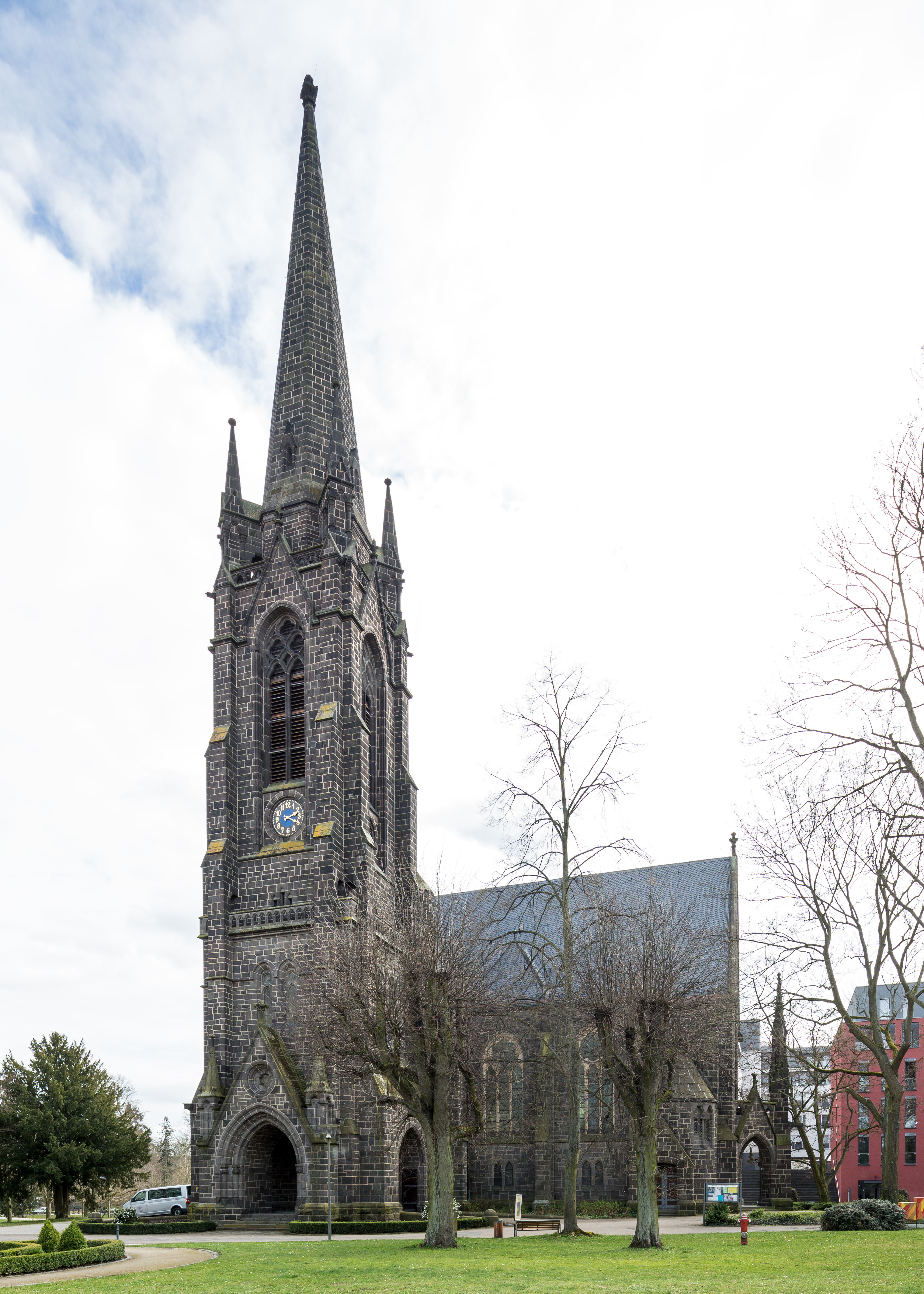 Bad Nauheim: Dankeskirche (Church of Thank) as seen from the northwest